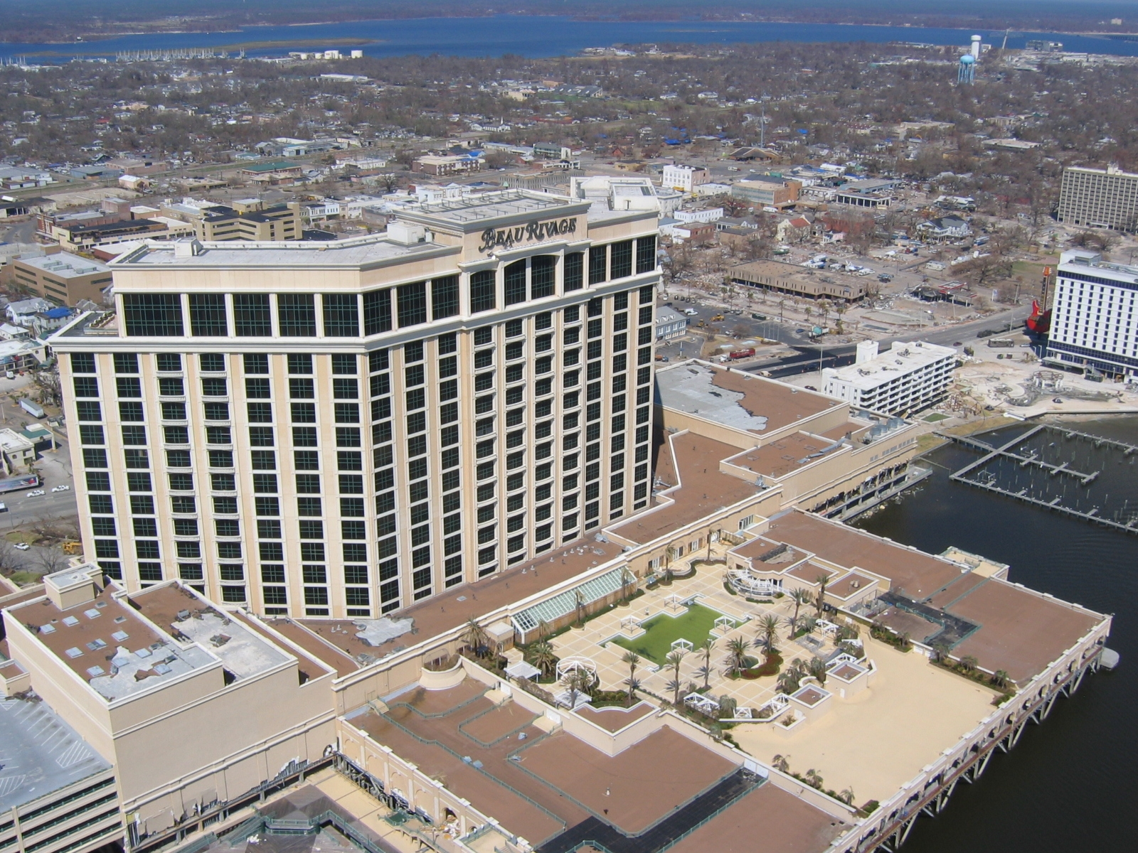 MGM Resorts International's Beau Rivage Resort & Casino in Biloxi, Mississippi. This photo was taken just after Hurricane Katrina in 2005, and does not depict the current beauty and growth as of 2012.